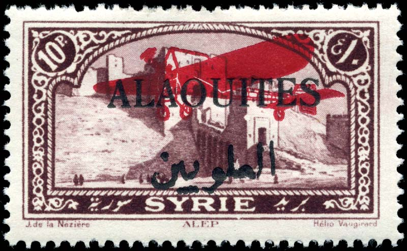 Alaouites 10-piastre overprint airmail stamp of 1926